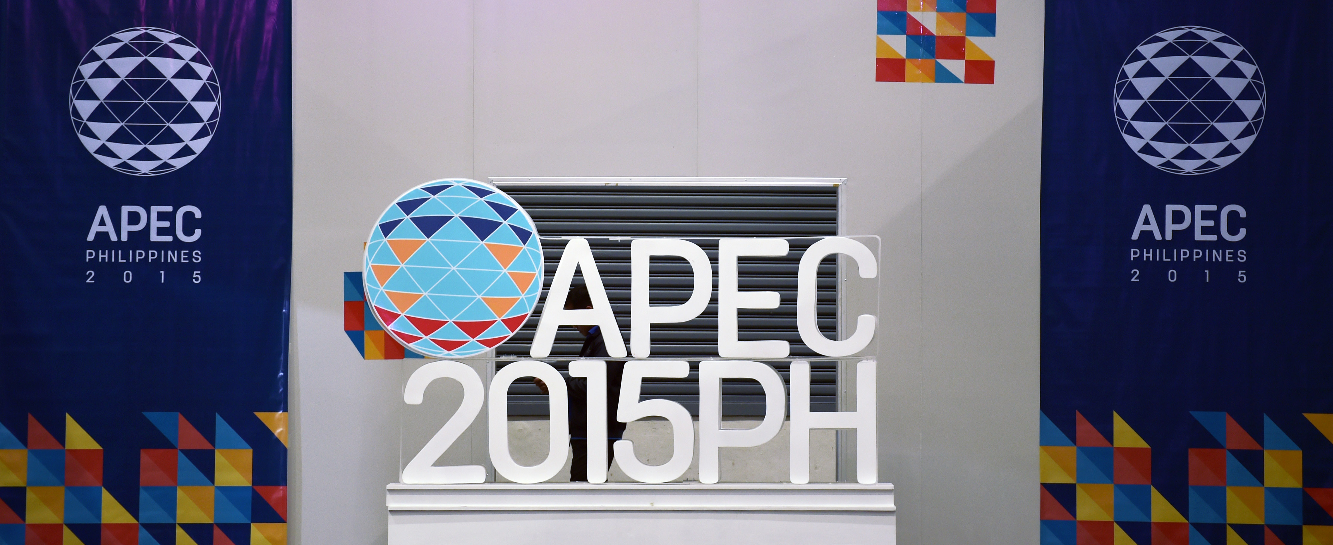 Foro APEC 2015